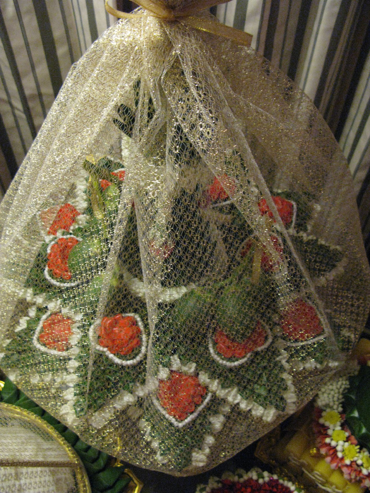 Khan mak, a gift given by a groom to the bride's parents in the Thai culture.